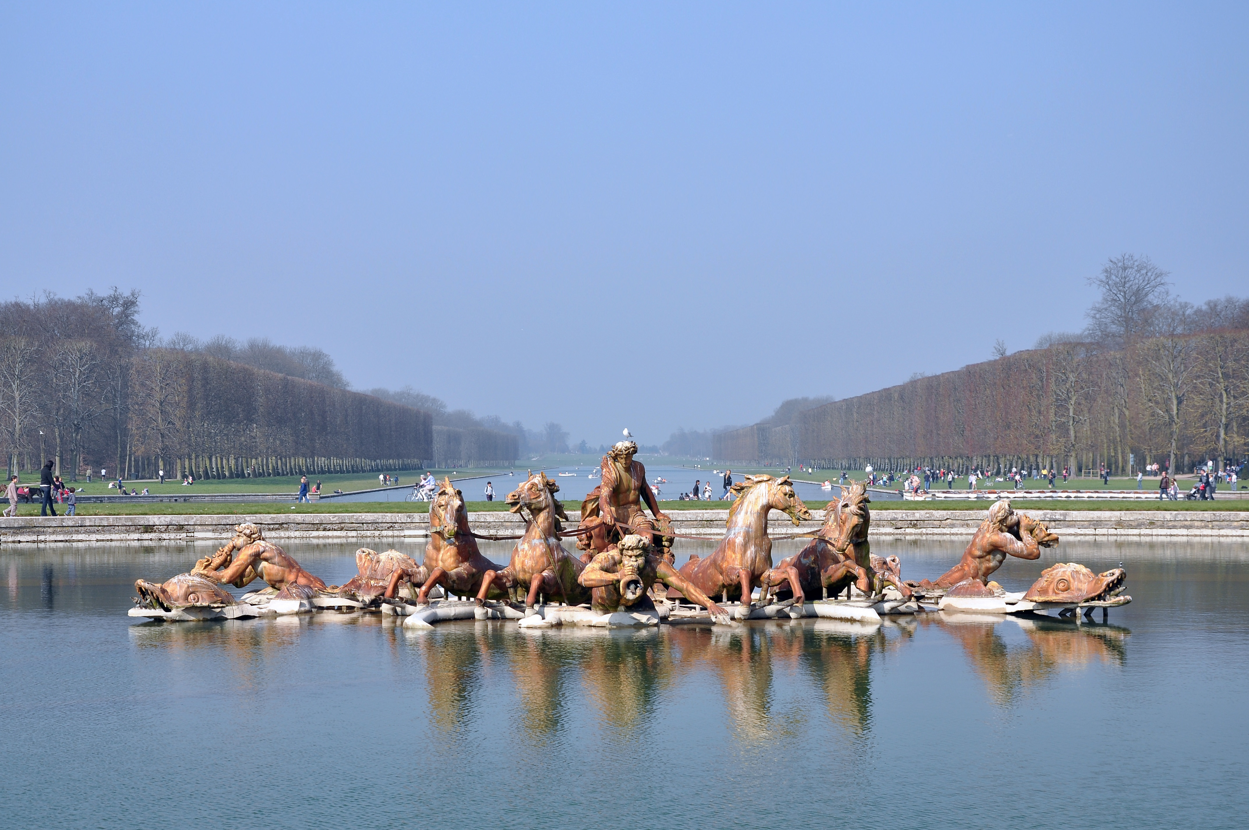 Apollo Fountain in the Gardens of Versailles, Versailles, Yvelines department in France. Work of Jean-Baptiste Tuby.